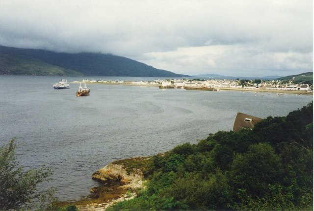 Loch Broom and Ullapool